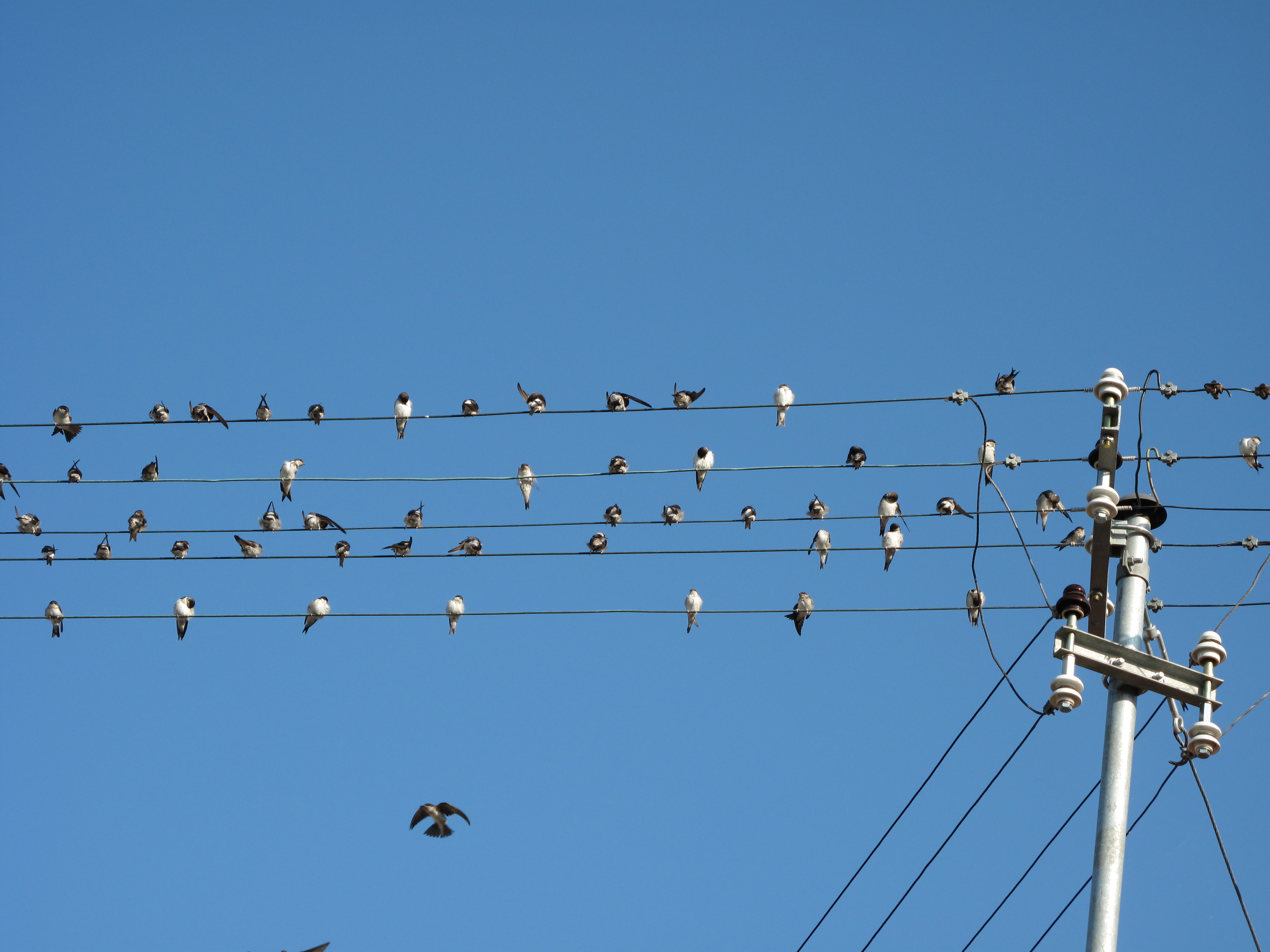 Common House Martin (Delichon urbica) on the wires in Vojníkov village, Písek District, Czech Republic.